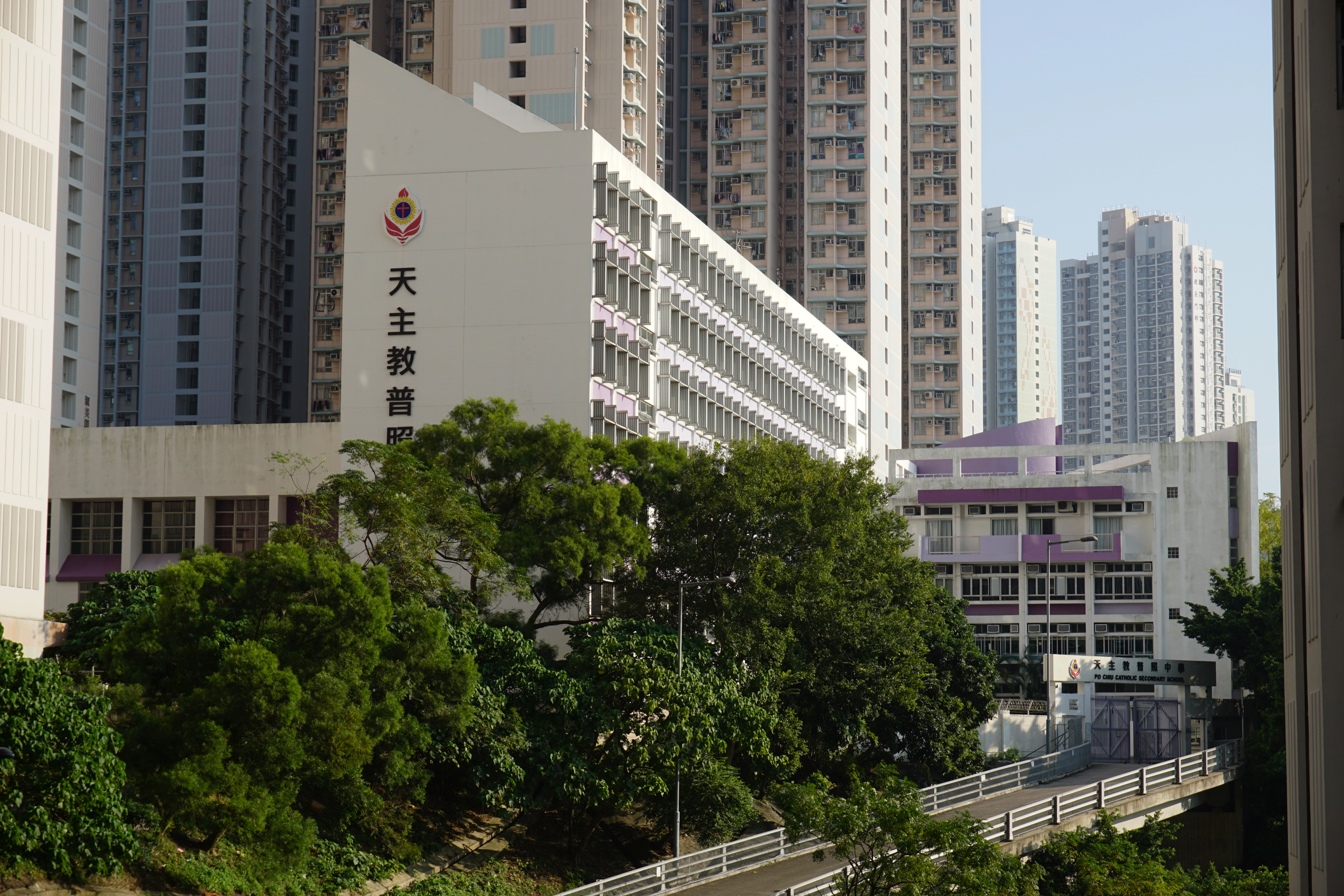 Po Chiu Catholic Secondary School in Yau Tong, Hong Kong.